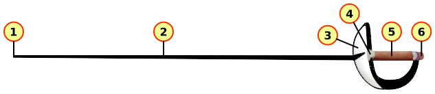 Schema of a electrical sabre. Button Blade Bell Guard Electrical socket Handle Pommel